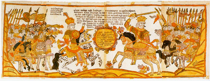 The glorious battle of Alexander, King of Macedon, and Porus, King of India. Russian lubok.